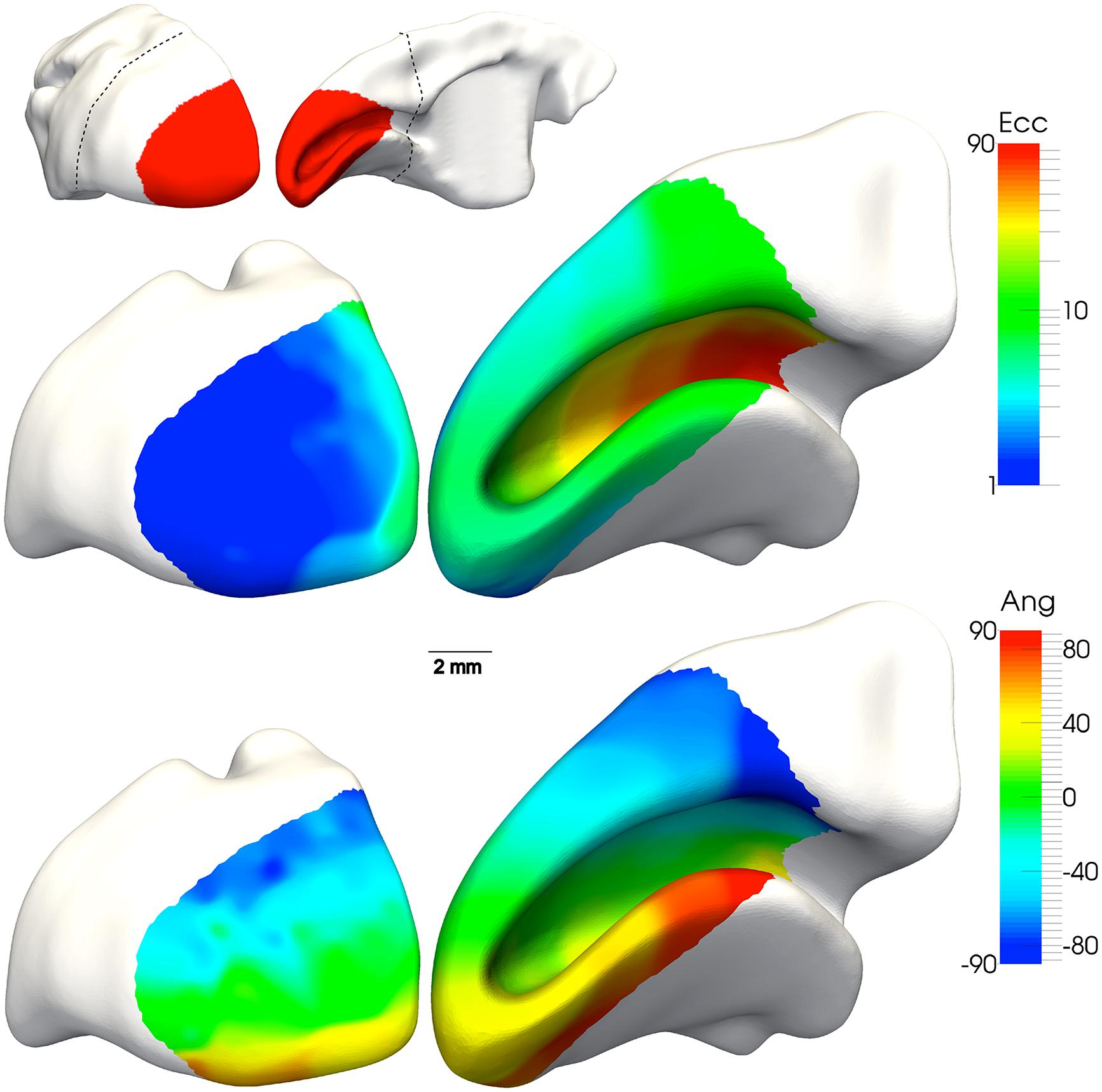 Location and visuotopic organization of marmoset primary visual cortex (V1). Top: caudal and medial views of the marmoset cerebral cortex, showing the location of V1 (red). The dashed line indicates the region reconstructed in the bottom panels. Middle: The representation of eccentricity from the fovea (“Ecc,” in degrees of visual angle), according to the color scale shown on the right. This reconstruction represents data from a single individual, in which hundreds of recording sites were obtained (Chaplin et al., 2013a). The portion of V1 exposed on the caudal surface of the brain corresponds to the representation of the fovea and parafovea (dark blue), while the far periphery of the visual field is represent at the most anterior portion of the calcarine sulcus (red). Bottom: The representation of polar angle (“Ang”) in the same individual. The lower contralateral visual field (blue, cyan) is found on the dorsal surface, and the upper contralateral field (yellow, orange, red) is found on the ventral surface. The representation of the horizontal meridian (green) divides V1 nearly equally.